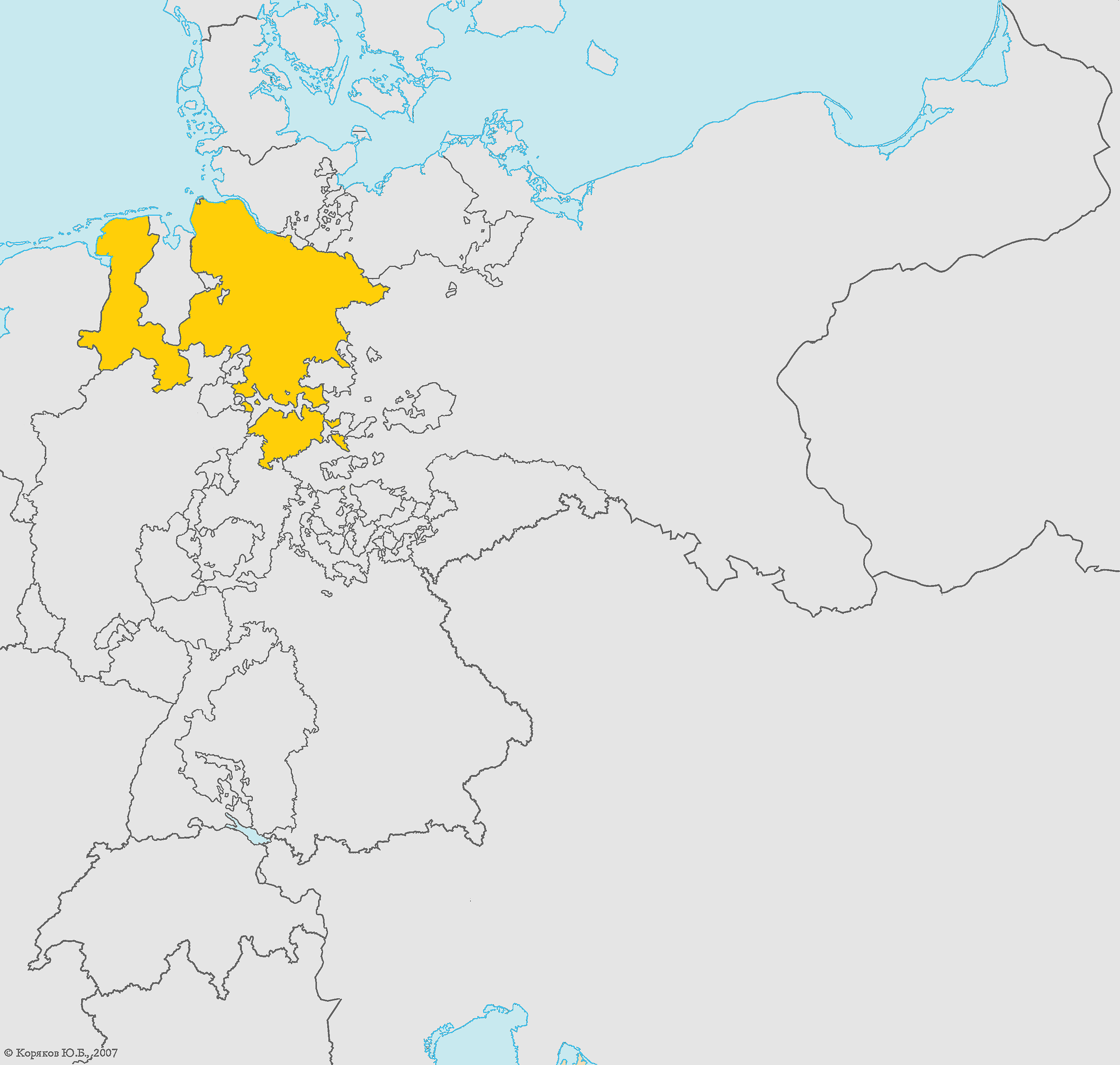 The Kingdom of Hannover before Austro-Prussian War in 1866.